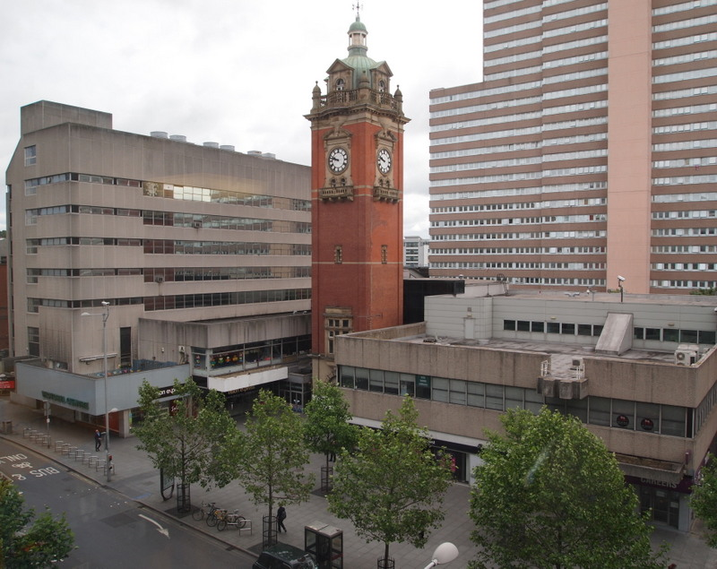 Nottingham - NG1 (Victoria Centre)